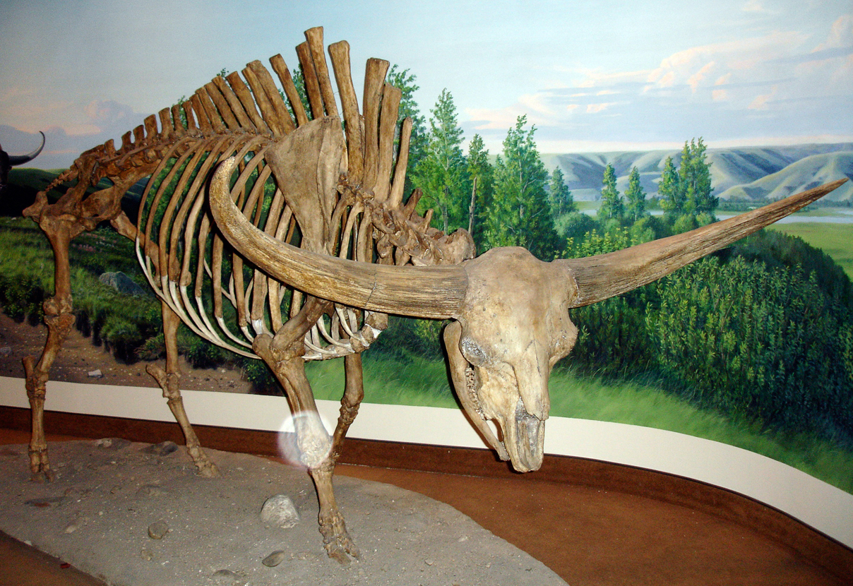 Bison latifrons was a (now extinct) species of bison that lived in North America. It had a shoulder height of 2.5 meters (8.5 feet), and had horns that spanned over 2 meters (6.5 feet).